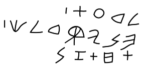 brief phoenician inscription, halfway down the shaft of the tomb in which Ahiram sarcophagus was found